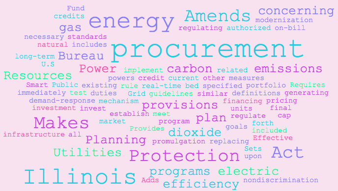 This image is a "word cloud" of the phrasing in the Illinois Clean Jobs Bill synopsis. The size of the words in the word cloud represent how often they are used in the synopsis.